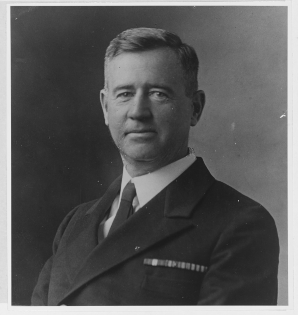 Captain Howard H.J. Benson; USNA Class of 1909